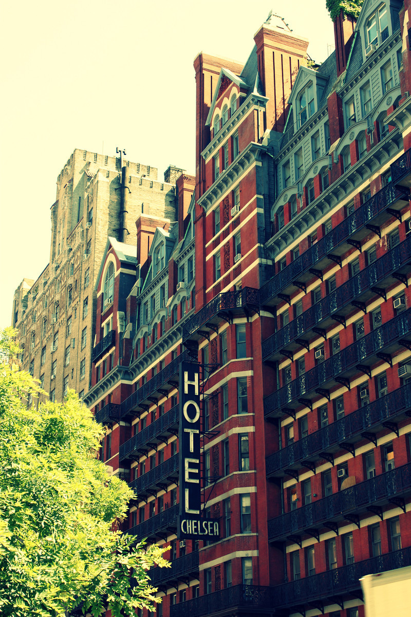 Chelsea Historic District